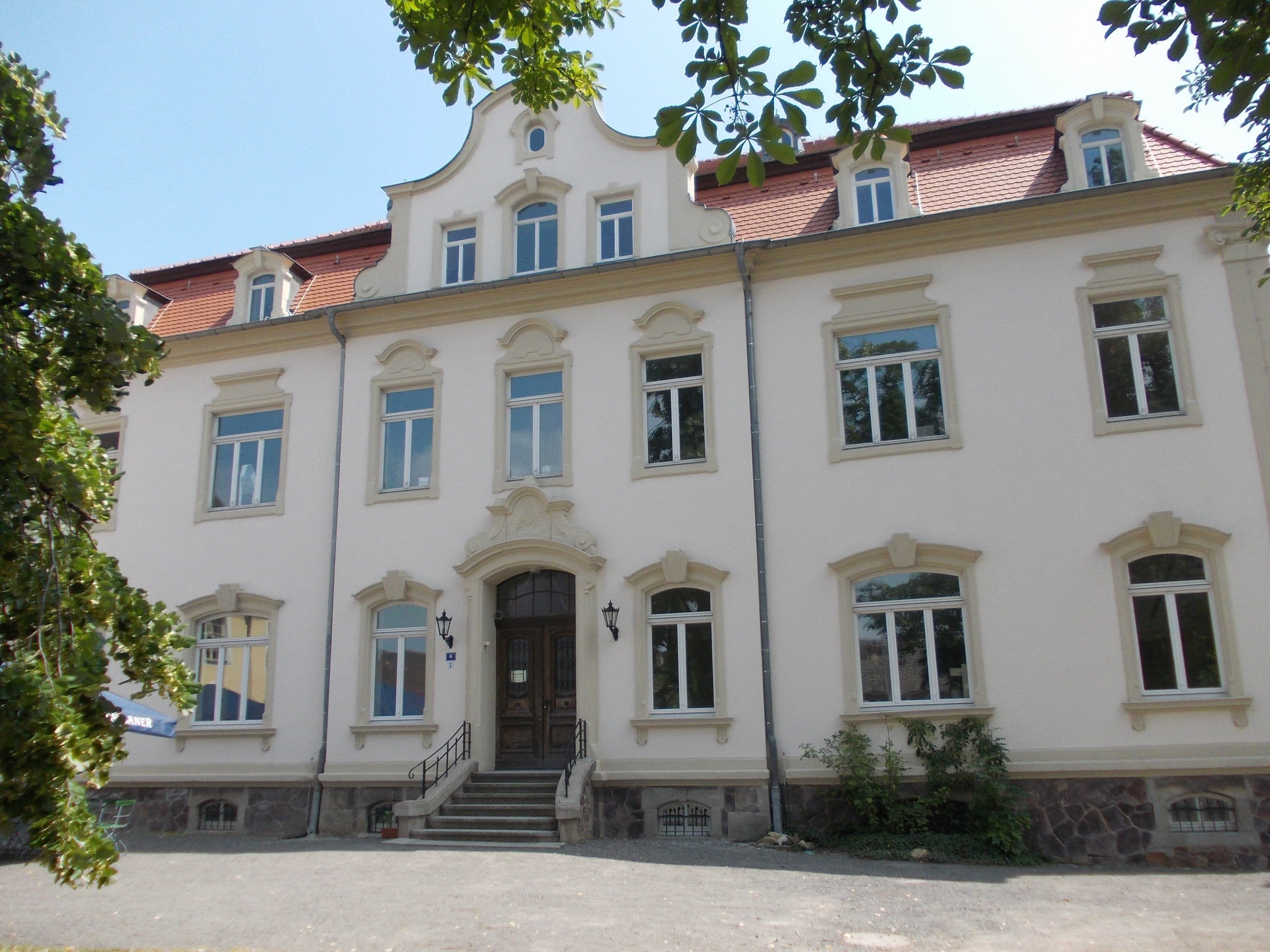 Manor house of Kahnsdorf estate (Neukieritzsch, Leipzig district, Saxony)